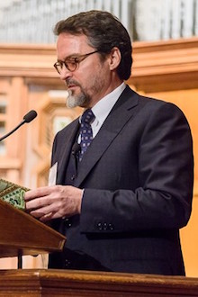 Hamza Yusuf delivering lecture at Yale